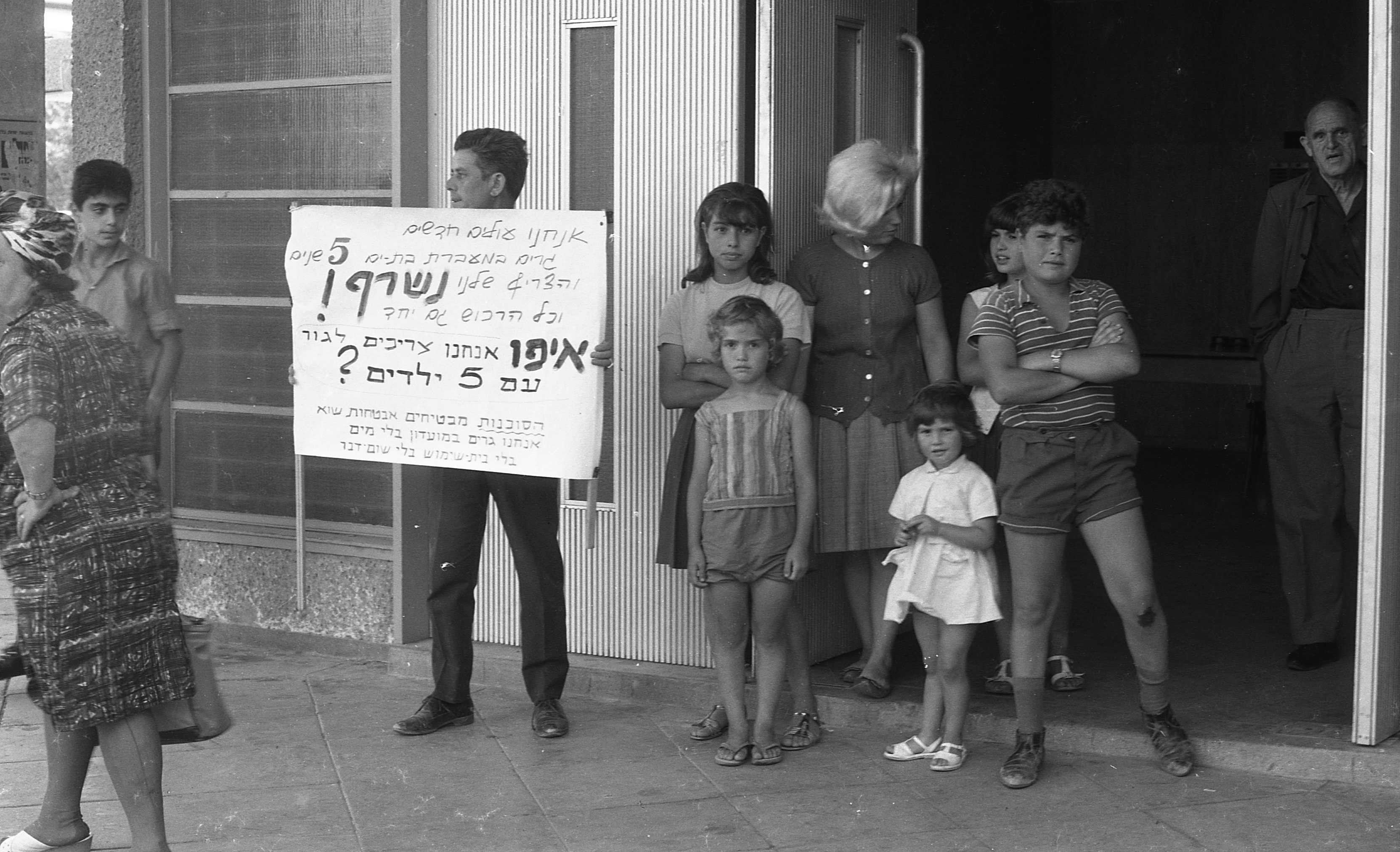 English title:Immigrants (Olim) protest against the conditions in Bat Yam transition camp (Ma'abara)